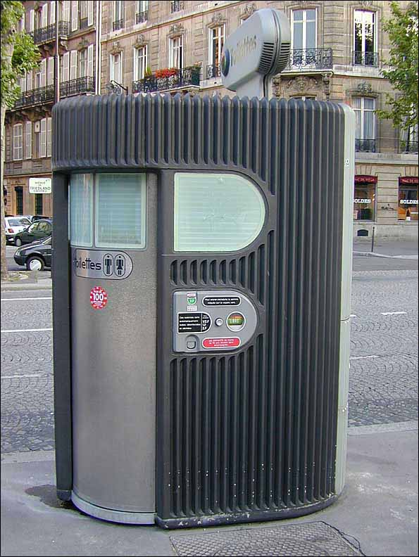 Sanisette (self-cleaning street toilet) in Paris, France